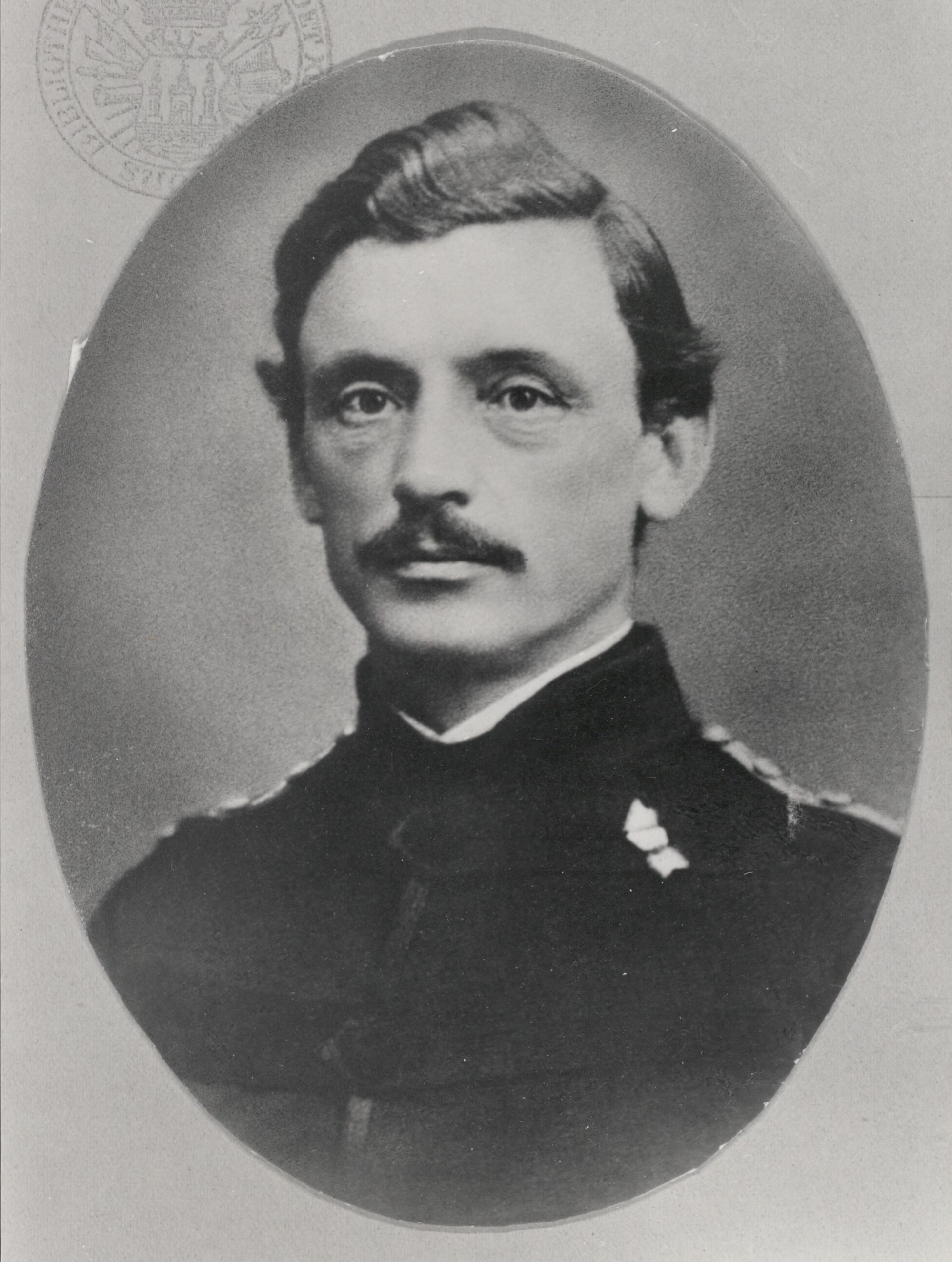 Ludolph Erasmi Fog (1825-1897), Danish Lieutenant General